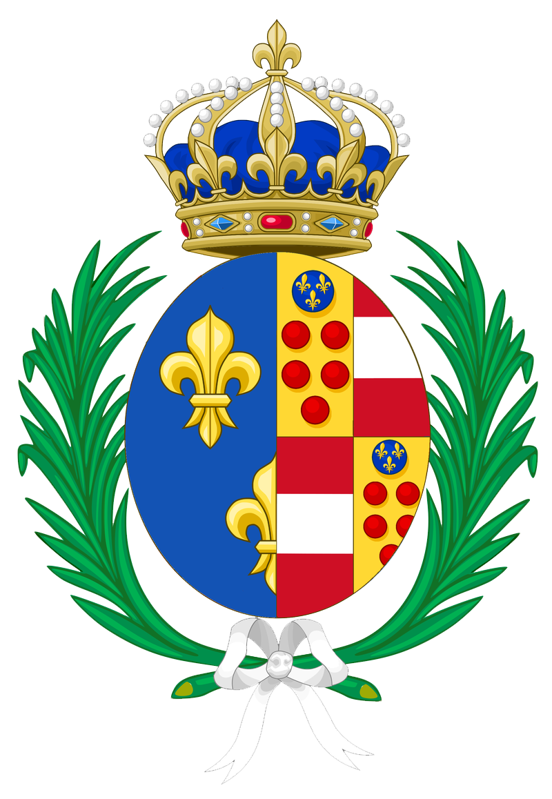 CoA of Marie of Medicis, second wife of Henri IV. To be improved if necessary.